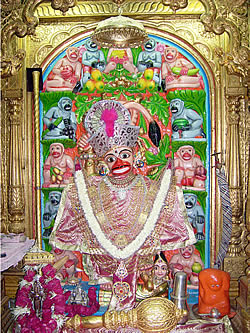 Image of Kastabhanjan Dev at Sarangpur.